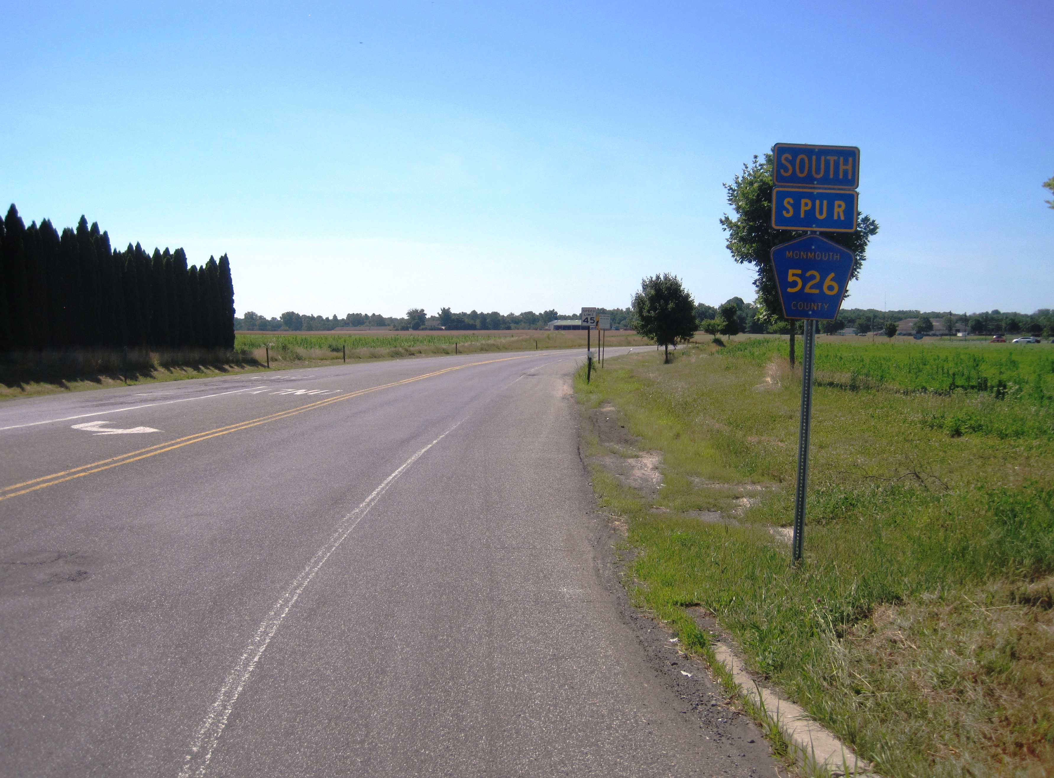 Photo of the northern terminus of County Route 526 Spur (formerly briefly signed as CR 526 Alternate) in Upper Freehold Township, New Jersey. Photo taken from Old York Road (CR 524/CR 539)